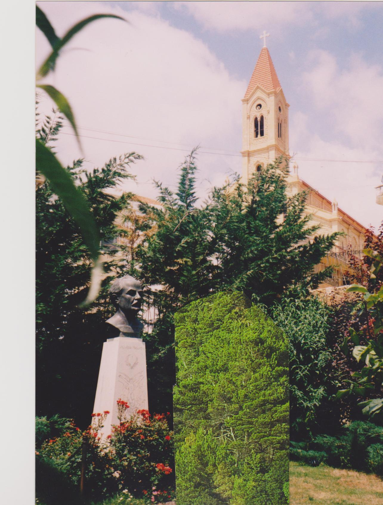 Bust of Chalil Jibran Bcharre in Lebanon